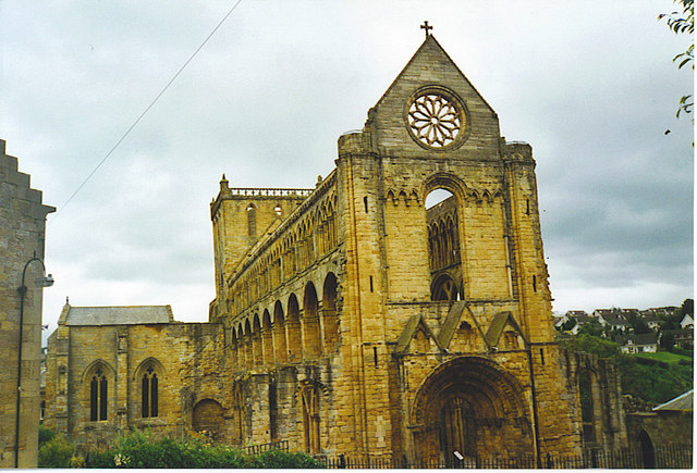 Jedburgh Abbey, Nave and Rose Window. The abbey was founded in 1118, sacked many times by the English till the final damage in 1523.